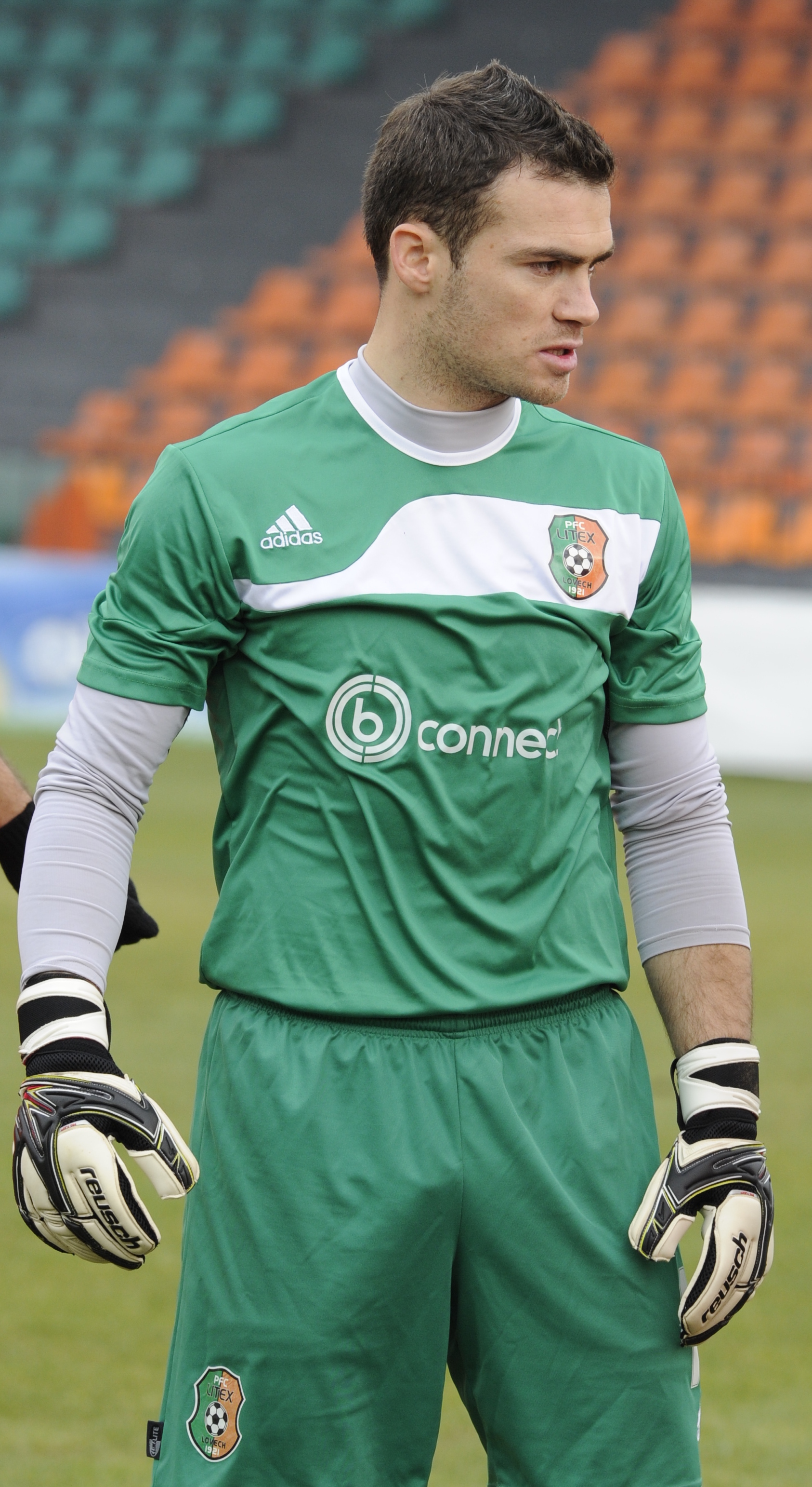 Ilko Pirgov